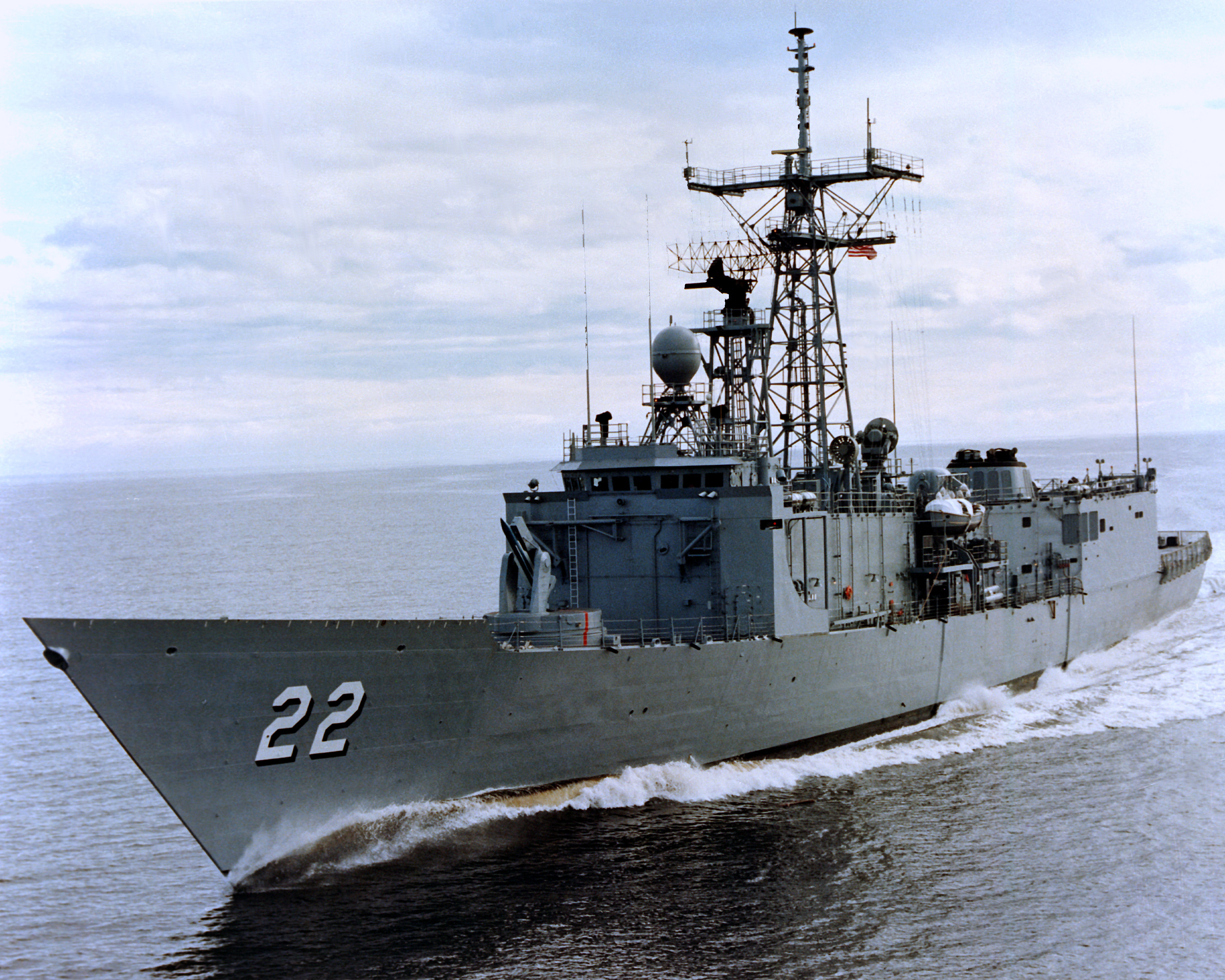 The U.S. Navy guided missile frigate USS Fahrion (FFG-22) underway on 6 October 1981 as Todd Pacific Shipyards Corporation conducted sea trials in Puget Sound off Seattle, Washington (USA).